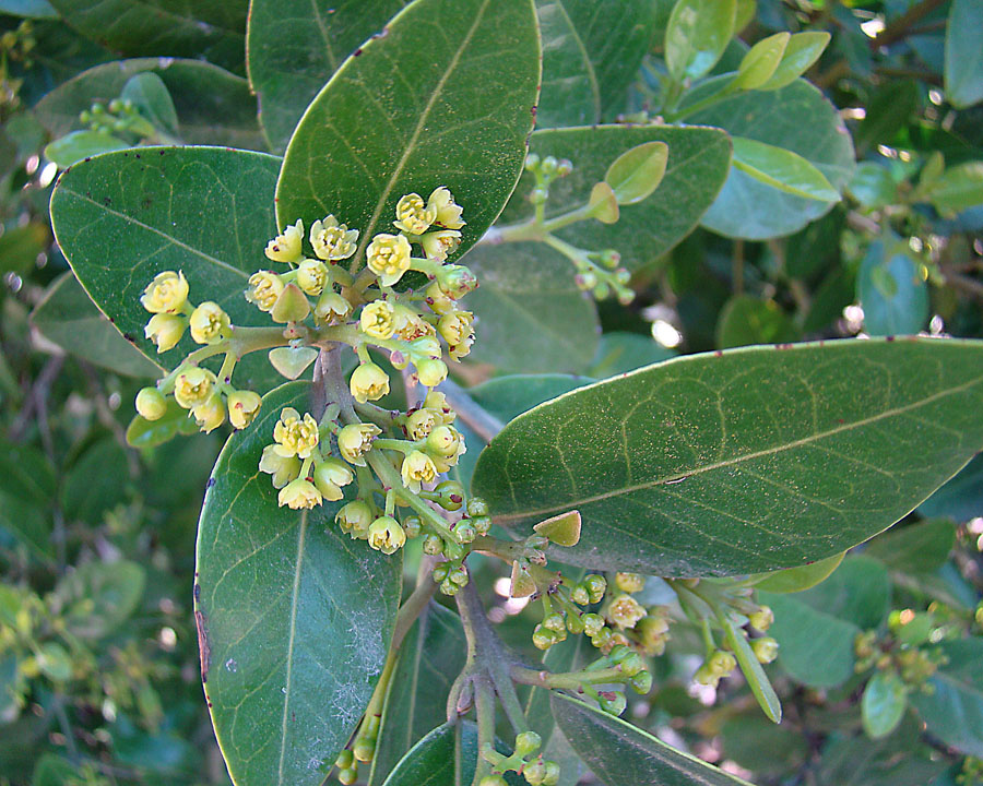 The Belloto del Sur is native to southern Chile, but here at UC Berkeley Botanical Gardens. In context at